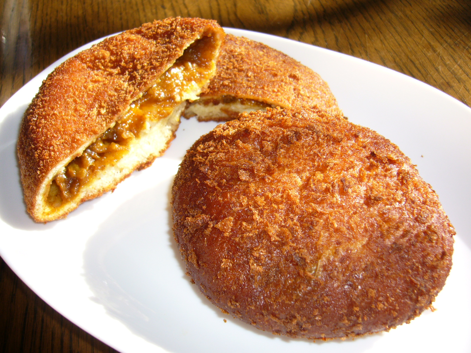 Curry-bun, curry-pan, katori-city, japan